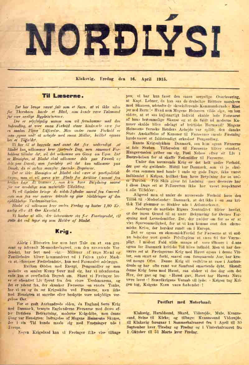 The first edition of Norðlýsið paper, April 16., 1915